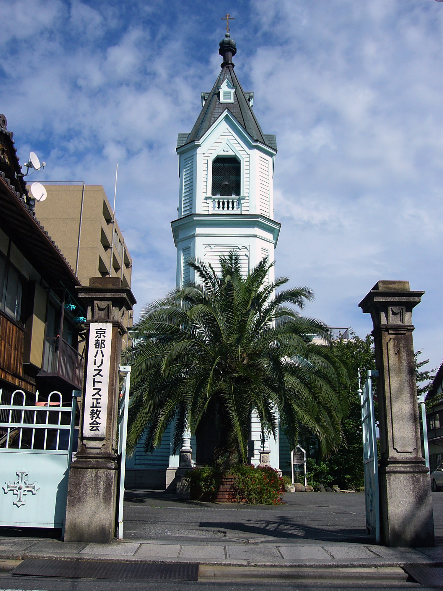 Kyoto Annunciation Cathedral in Kyoto, Kyoto prefecture, Japan